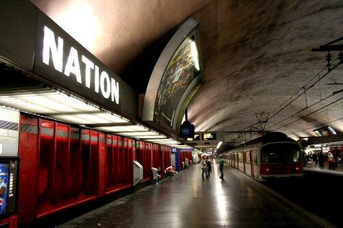 RER Station Nation, Paris (France) photo token by M.GASMI. Source= Own photograph by uploader. Author= M.GASMI. MS 61 type C/D/E/Ex Removed watermark read: GASMI copyright © G.Moslim